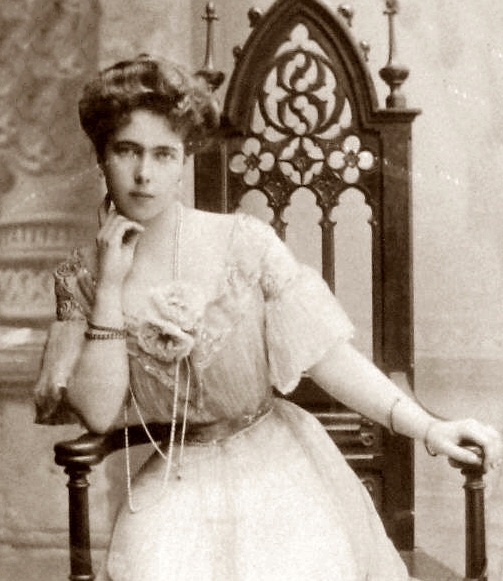 Princess Beatrice of Edinburgh and Saxe-Coburg-Gotha in 1907